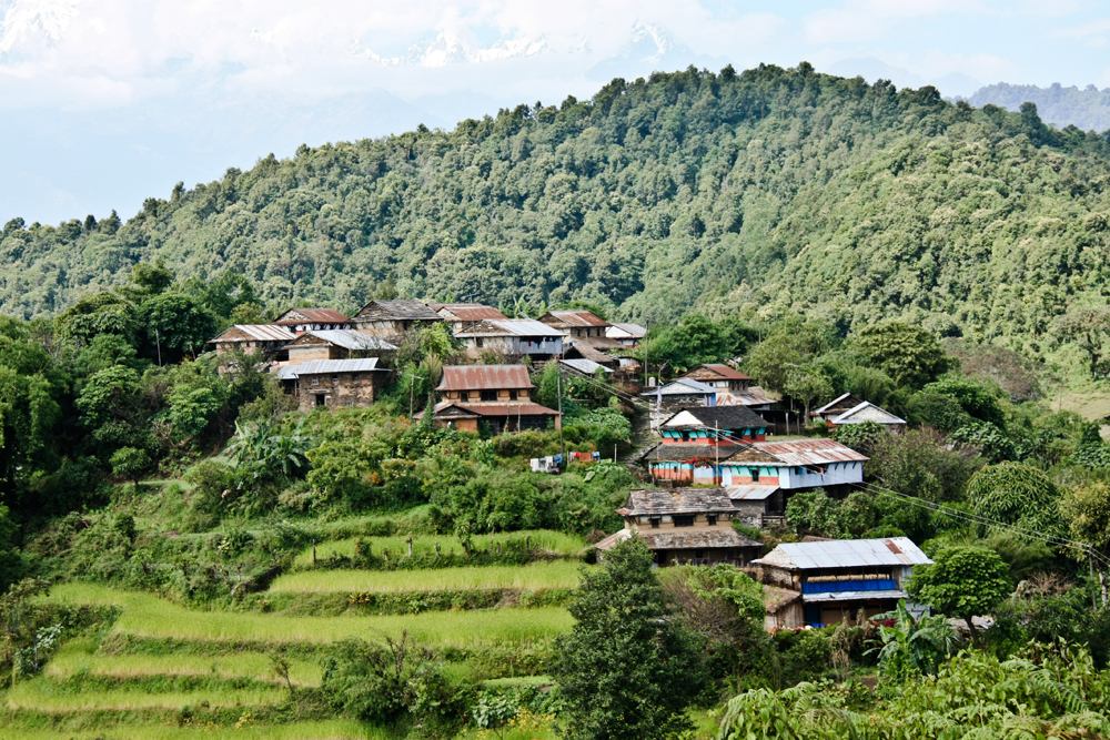 Template:Hile taksar v.d.c. ward no- 1 (TAKSAR)